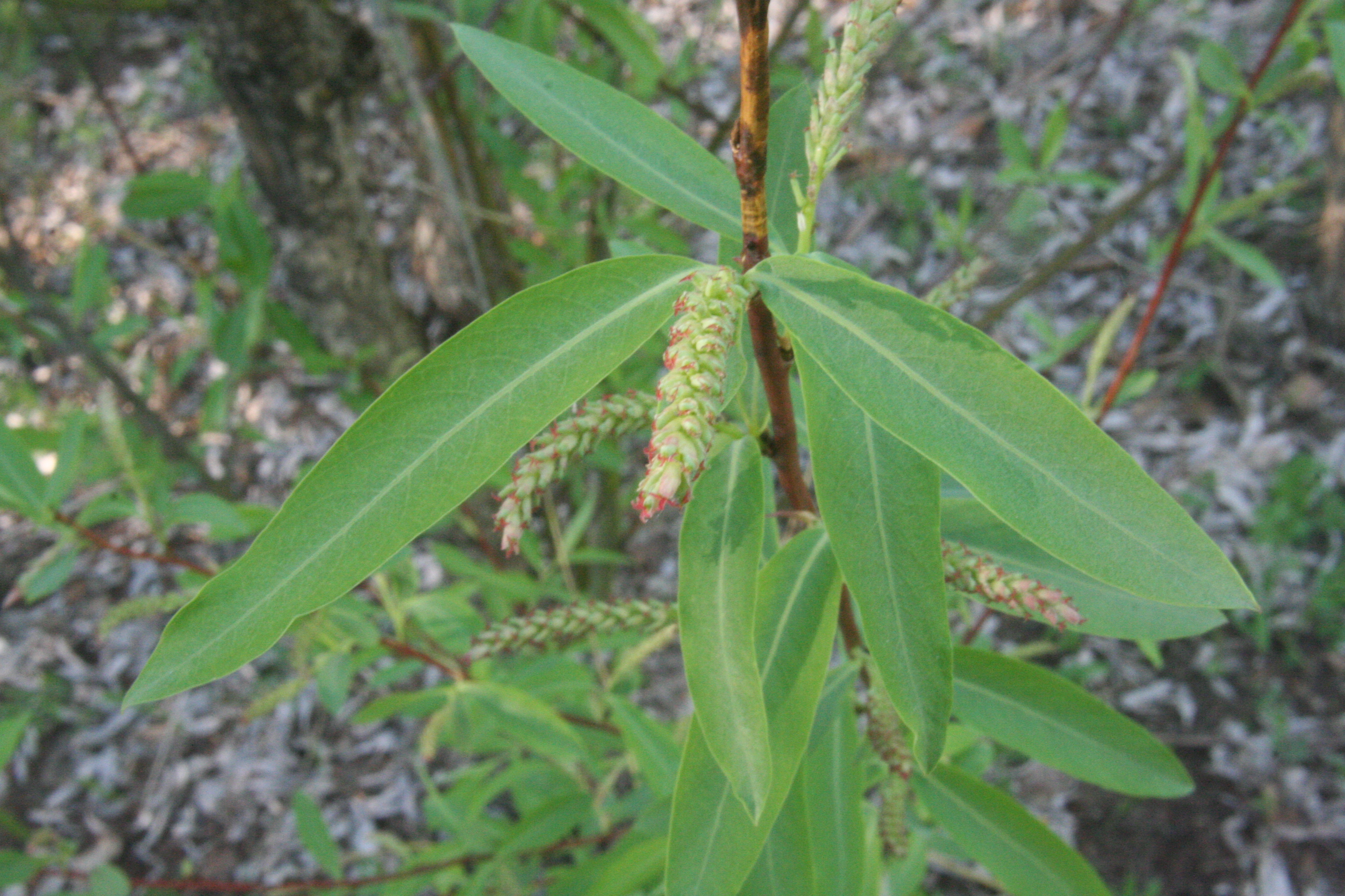 Leaves and catkins of Chosenia arbutifolia in Oulu University Botanical Gardens, Finland.